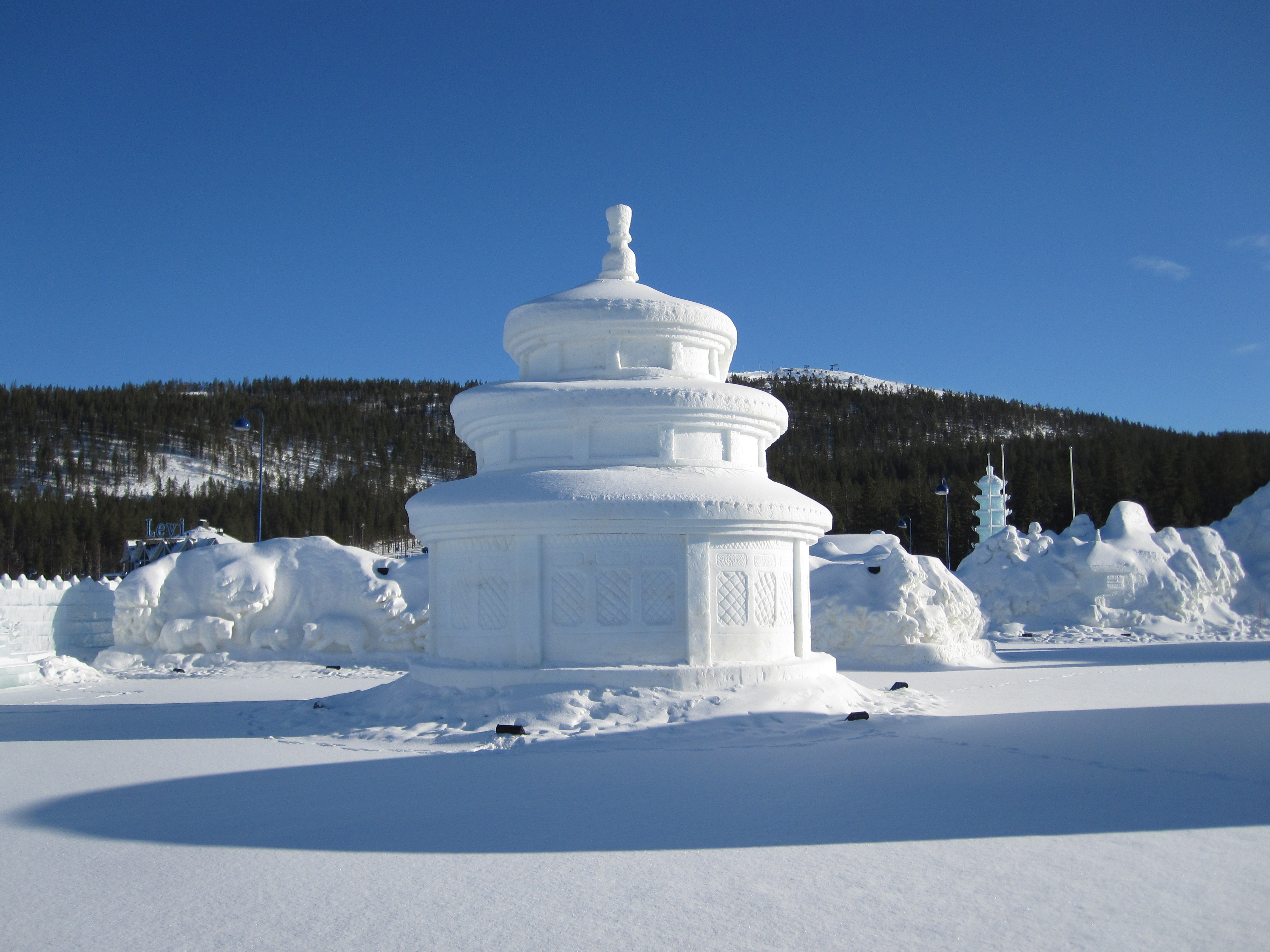 Temple of Heaven carved from snow at Levi ICIUM Wonderworld of Ice season 2010–2011 in Levi, Kittilä, Finland